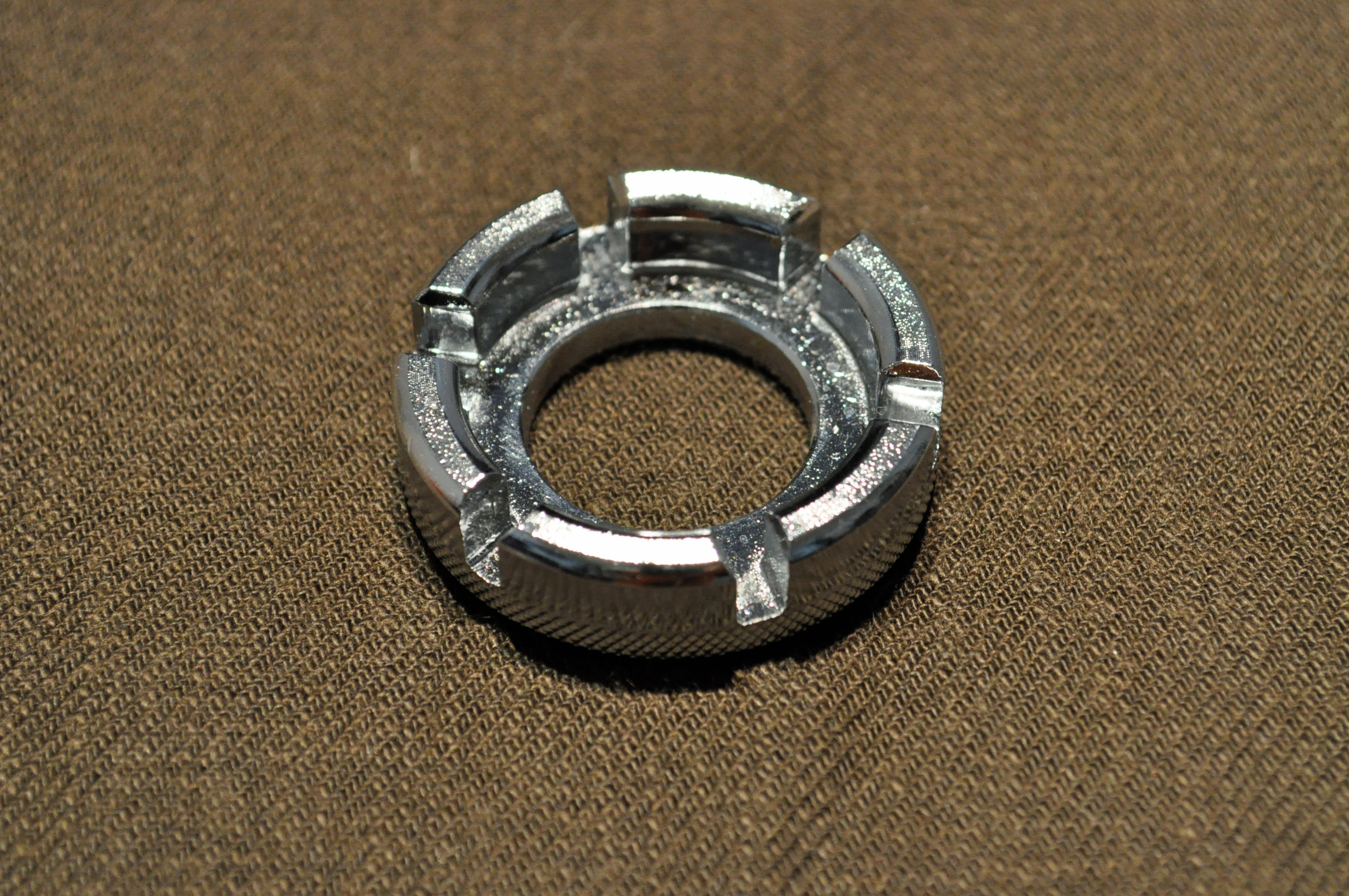 Spoke wrenchs